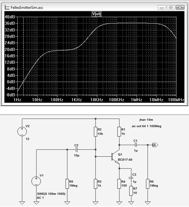 Common Emitter connection, frequency response